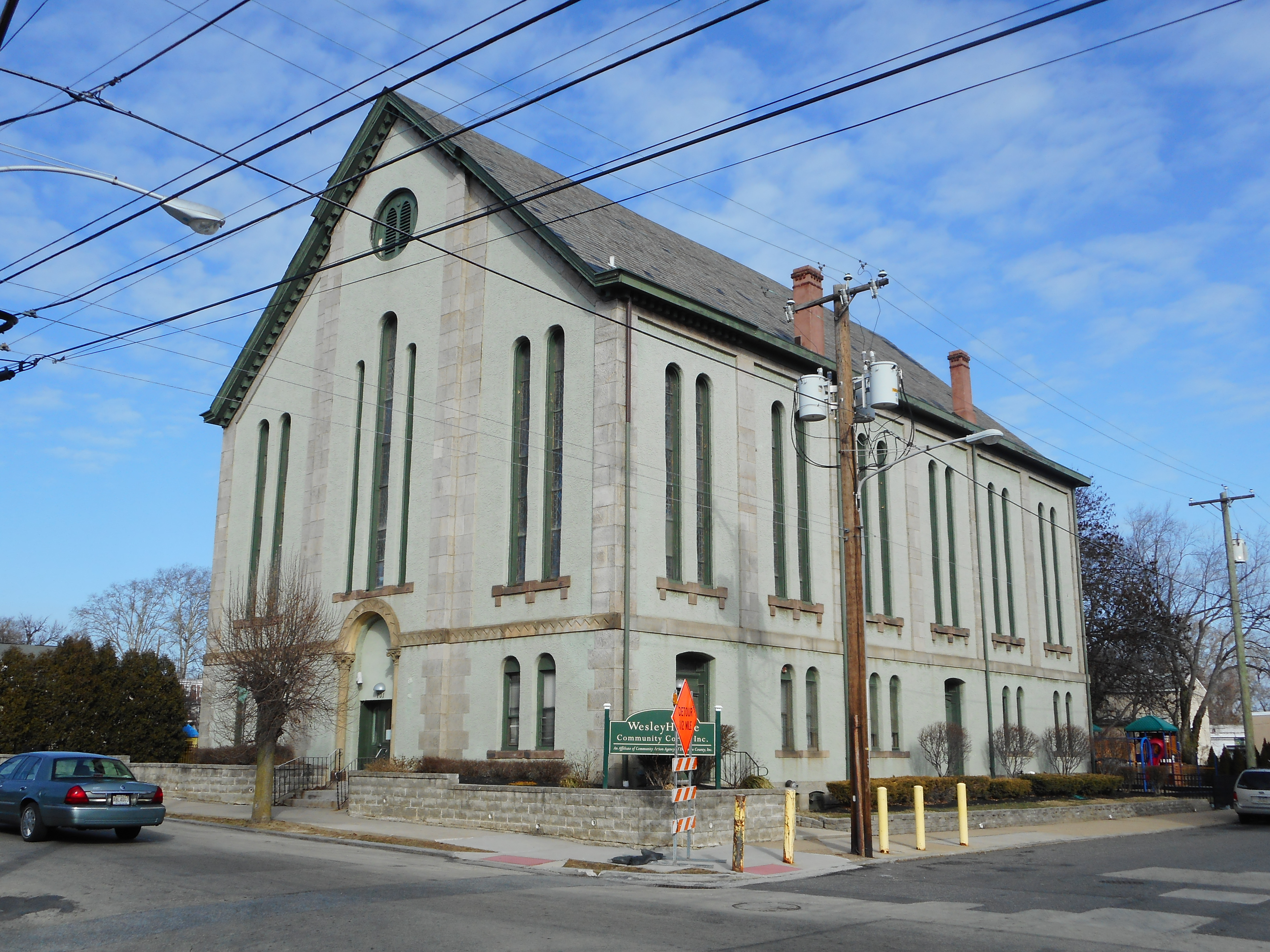 Building of "WesleyHouse Community Corp, Inc. an affiliate of Community Action Agency of Delaware County, Inc." according to the green sign near the near corner of the building. Good guess is that it's a former Methodist church, in Chester, Pennsylvania